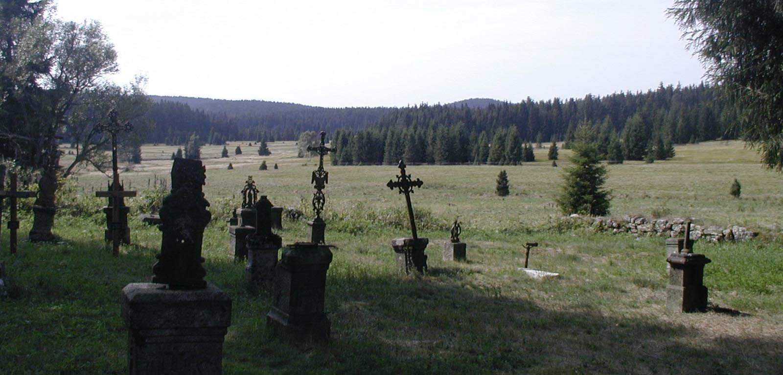 Cemetery in Pohoří na Šumavě